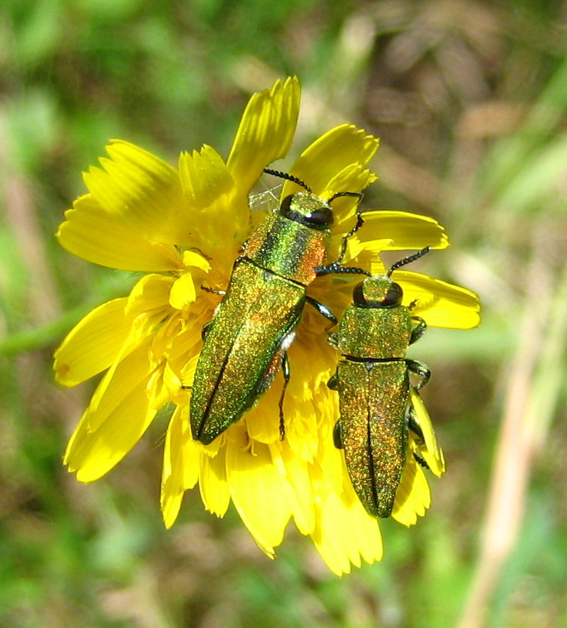 Anthaxia hungarica (Coleoptera, Buprestidae) on a compositae; female: left; male: right. Terrassa (Spain).